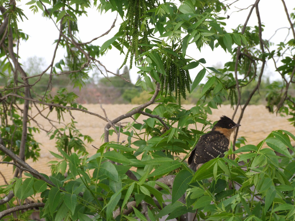 Clamator glandarius, Great Spotted Cuckoo